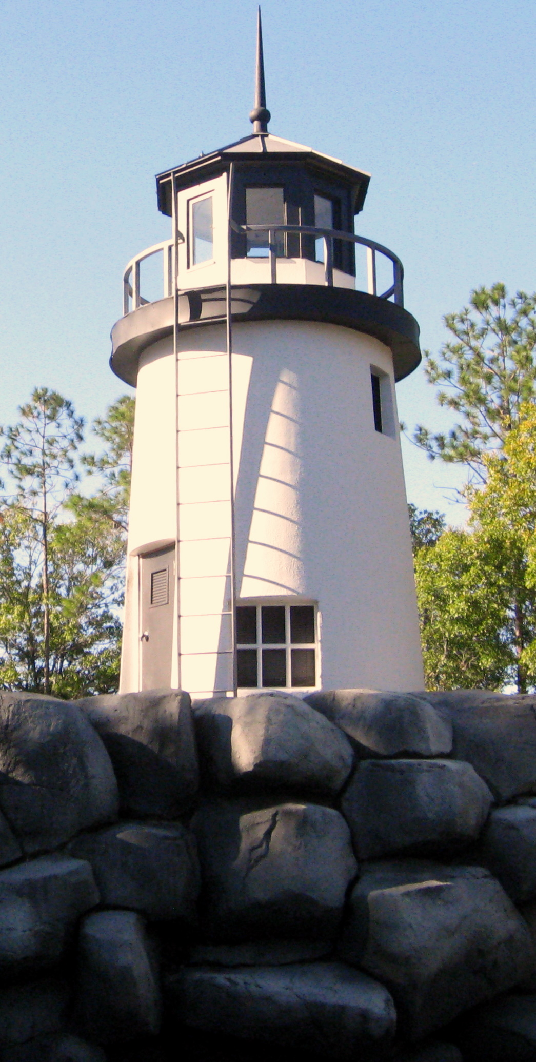 Universal Orlando - Universal Studios - Jaws - Amity Island Lighthouse